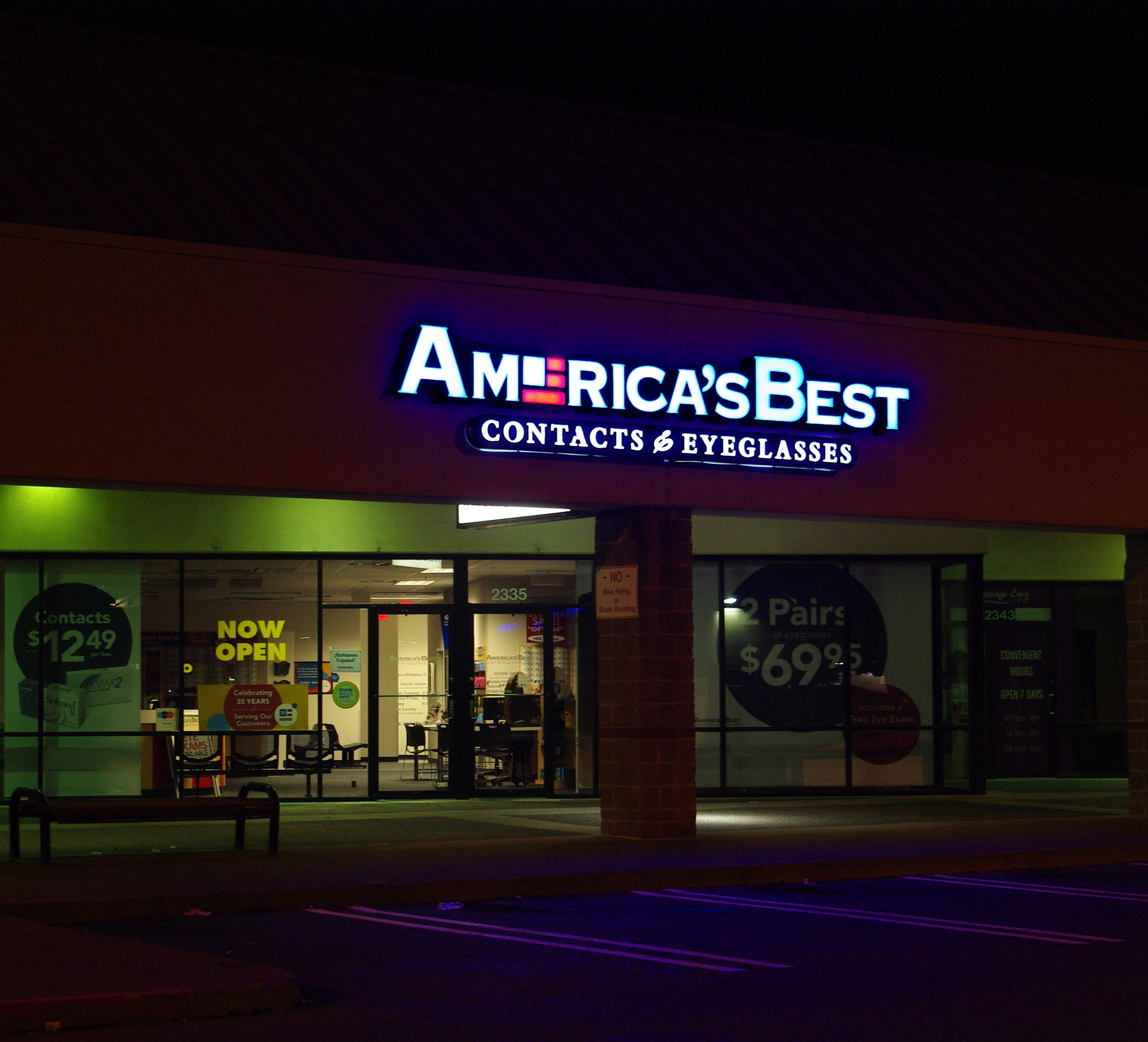 America's Best at the Sunset Esplanade in Hillsboro, Oregon.